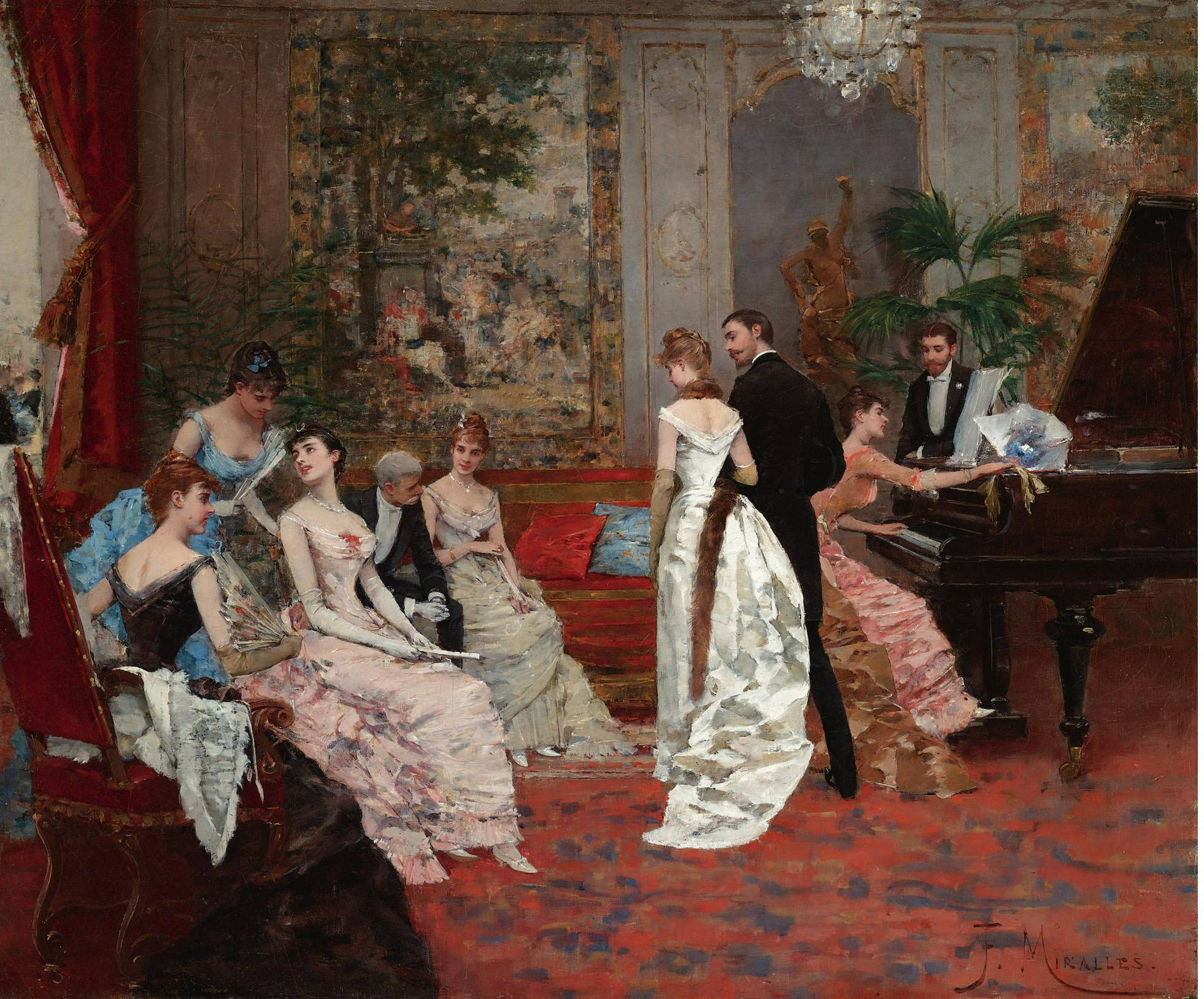 The Recital